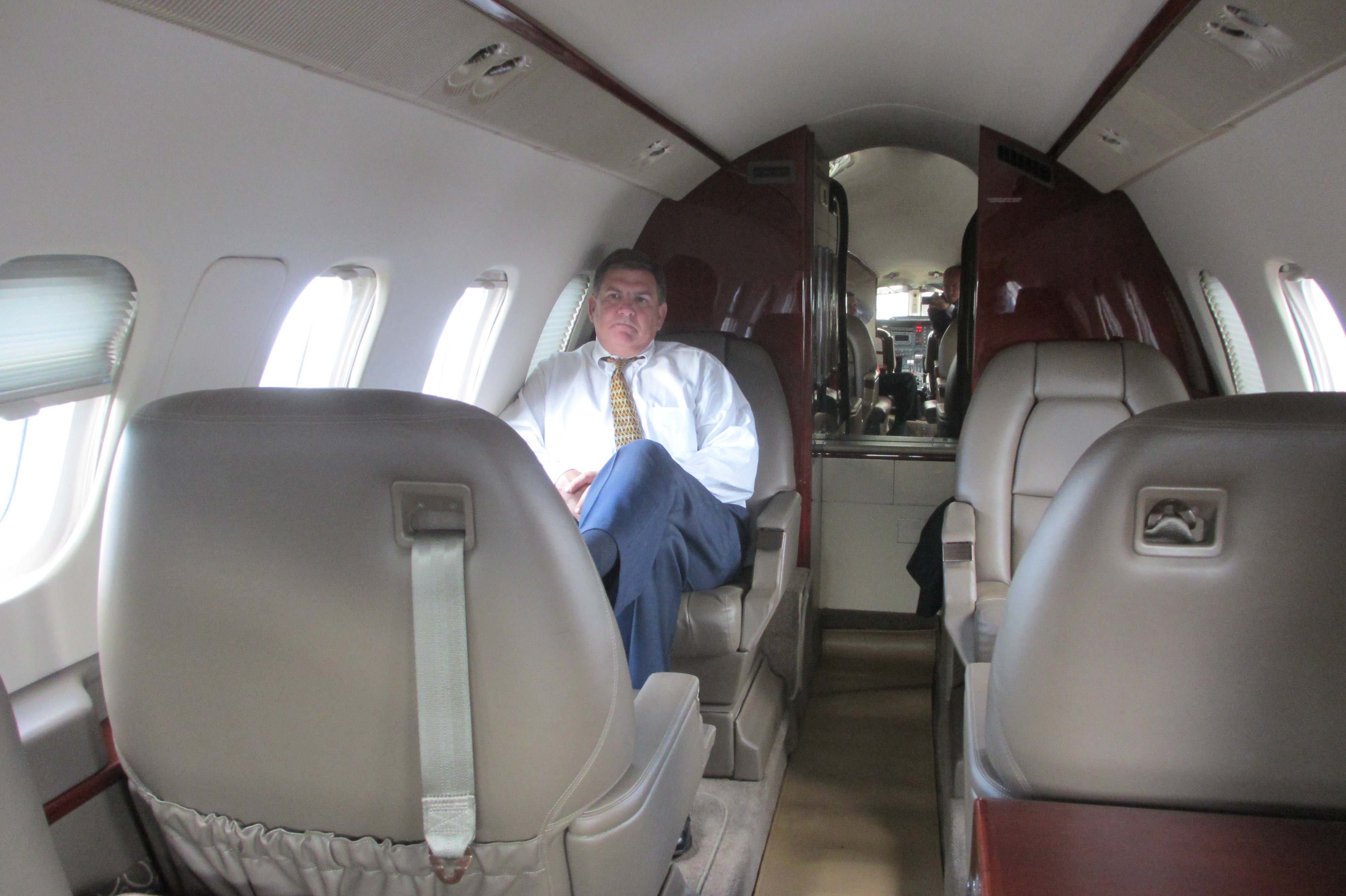 Interior of Piaggio P180 Avanti cabin facing aft